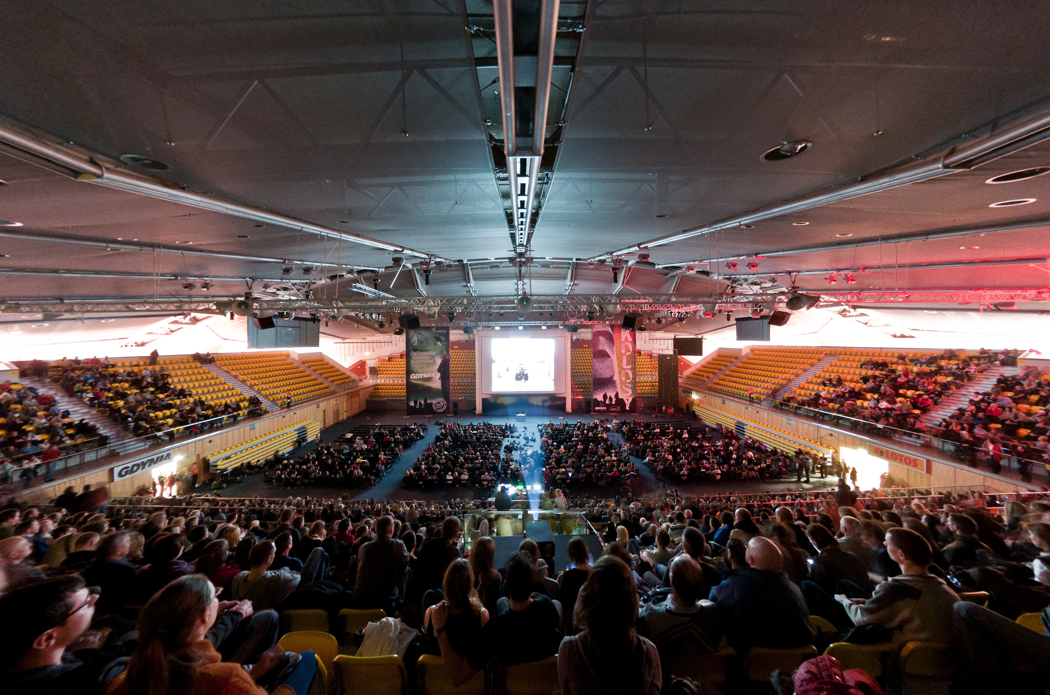 Gdynia Sports Arena - inside.